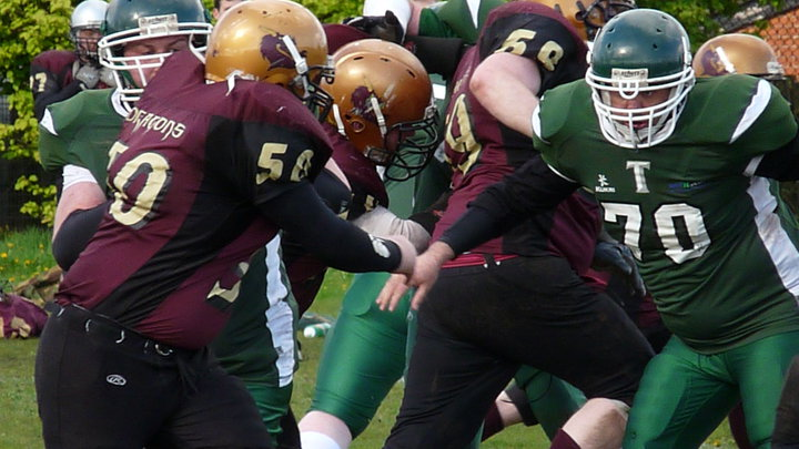 Belfast Trojans Vs Dublin Dragons 2010